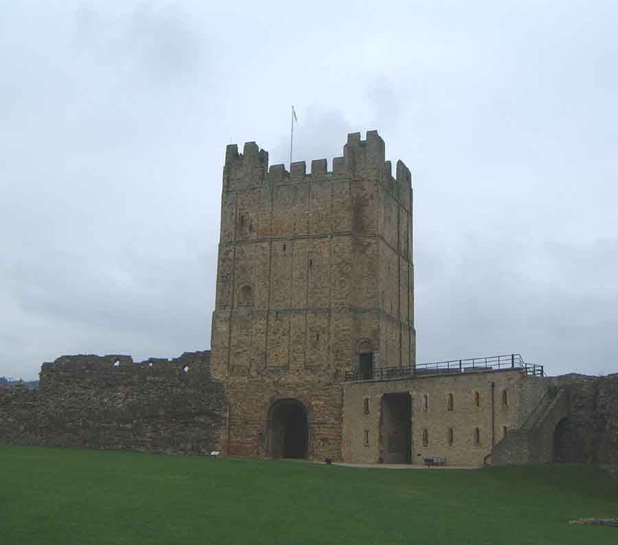 The Keep at Richmond Castle